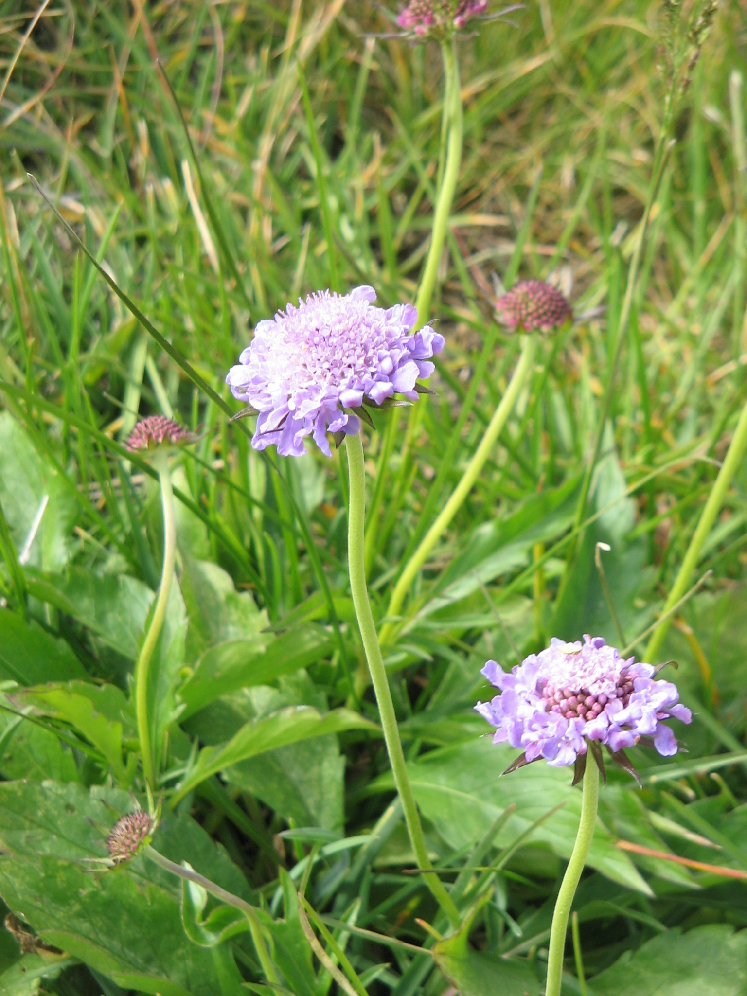 Scabiosa lucida close-up